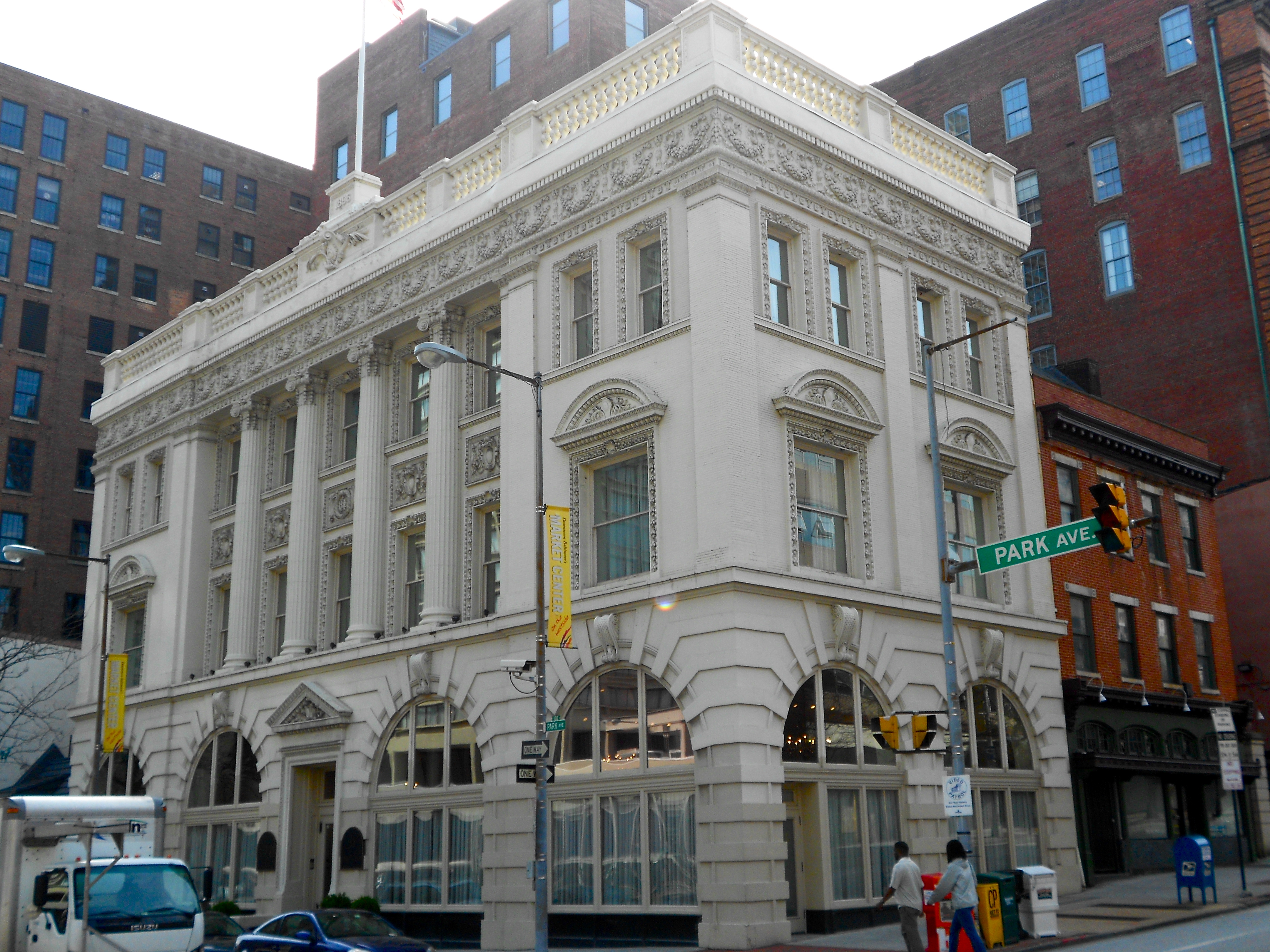 Brewers Exchange on the NRHP since March 28, 1985. At 20 Park Ave. in central Baltimore, Maryland